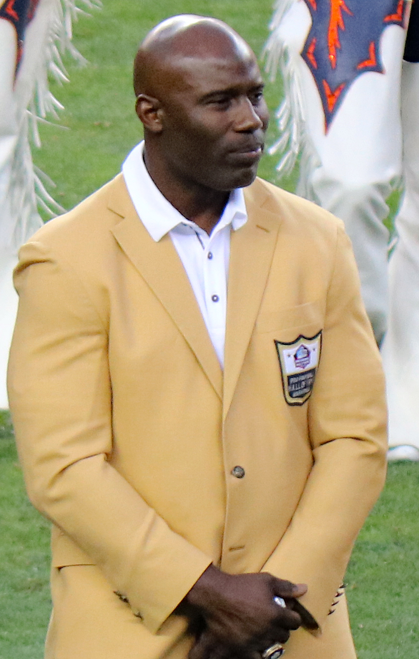 Terrell Davis, a retired National Football League player and member of the Pro Football Hall of Fame, wearing his Hall of Fame gold jacket.